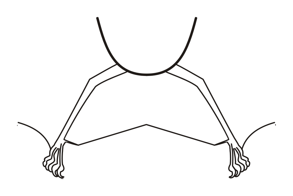 According to Husson, 1962 shows interfemoral membranes, calcar, feet and tail in bats of genus Rhinophylla